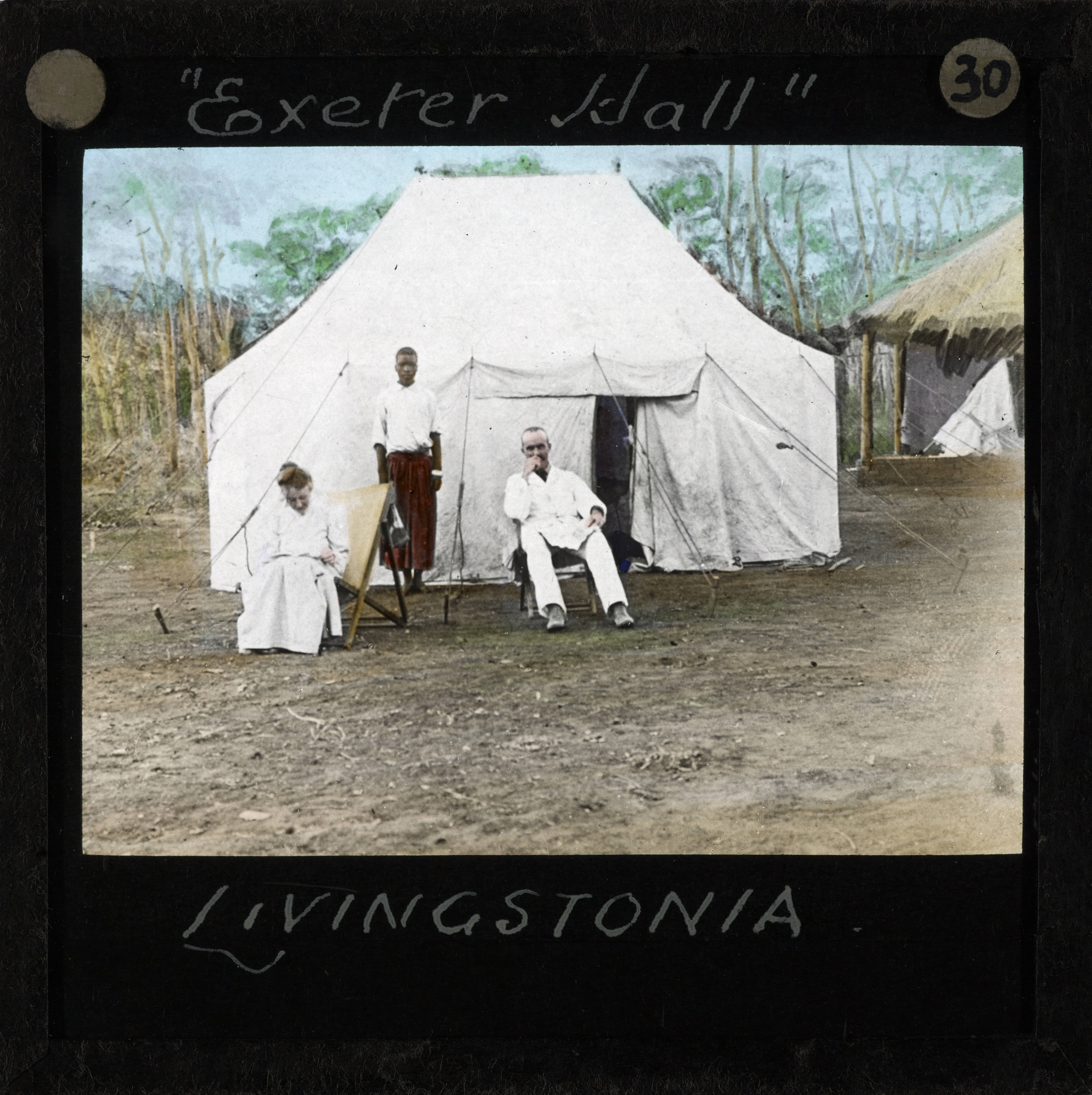 Rev Donald Fraser (1870-1933) and Mrs Agnes R. Fraser, Malawi, ca.1910 Photograph of the missionaries Rev Donald Fraser and Mrs Agnes R. Fraser seated outside a white tent, "Exeter Hut". An Africa man stands in the middle of them and a thatched hut can be seen to the left of the picture.; This belongs to a series of Church of Scotland Foreign Missions Committee lantern slides relating to Rev Donald Fraser (1870-1933). Rev Donald Fraser, the Scottish missionary, was born in Argyllshire, Scotland, the son of a Free Church minister. In his youth Rev Fraser helped found the Student Volunteer Movement in Britain and the World Student Christian Federation before beginning missionary service in Malawi with the Free Church of Scotland. He worked in Malawi from 1896 until he returned to Scotland in 1925. He was first posted to Ekwendeni and later Embangweni. Rev Fraser worked closely with the Ngoni people. Photographer: Unknown Filename: imp-cswc-GB-237-CSWC47-LS4-1-030.tif Coverage date: circa 1910 Part of collection: International Mission Photography Archive, ca.1860-ca.1960 Type: images Part of subcollection: Photographs from the Centre for the Study of World Christianity, University of Edinburgh, U.K., ca.1900-ca.1940s Repository name: Centre for the Study of World Christianity Archival file: impaunpub_Volume7/1479.url Repository address: The University of Edinburgh School of Divinity, New College, Mound Place, Edinburgh EH1 2LX, United Kingdom Geographic subject (country): Malawi Format (aacr2): 1 lantern slide : 8 x 8 cm. Geographic subject (continent): Africa Rights: Contact the repository for details. Part of series: Donald Fraser of Loudon LS4/1 Repository Subject (lcsh Keyword): Missionaries Date created: circa 1910 Publisher (of the digital version): University of Southern California. Libraries Subject (aat genre): exterior views Format (aat): lantern slides Legacy record ID: impa-m68527 Access conditions: File: GB 237 CSWC47/LS4/1/30